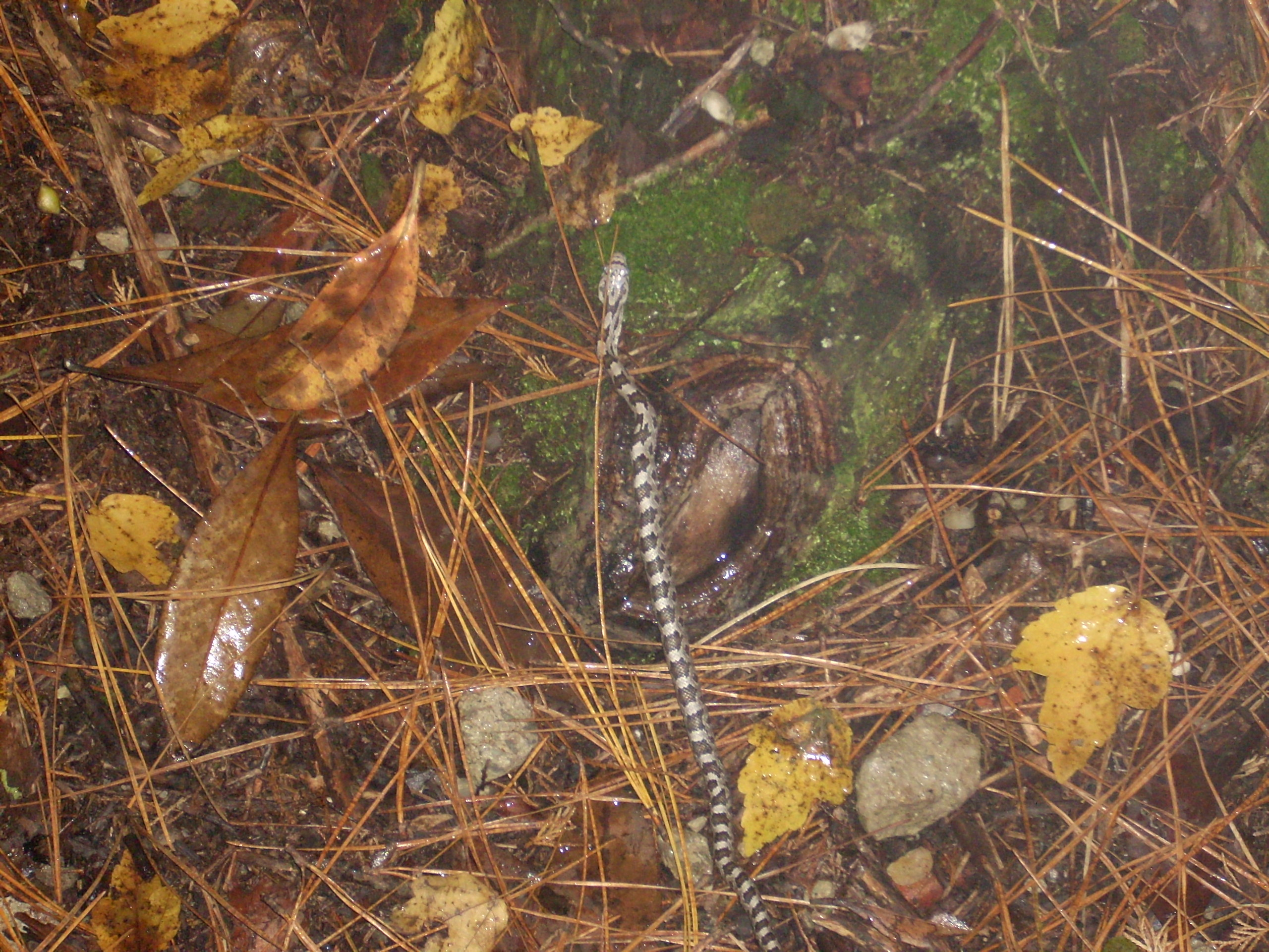 A small snake at Jones Lake State Park